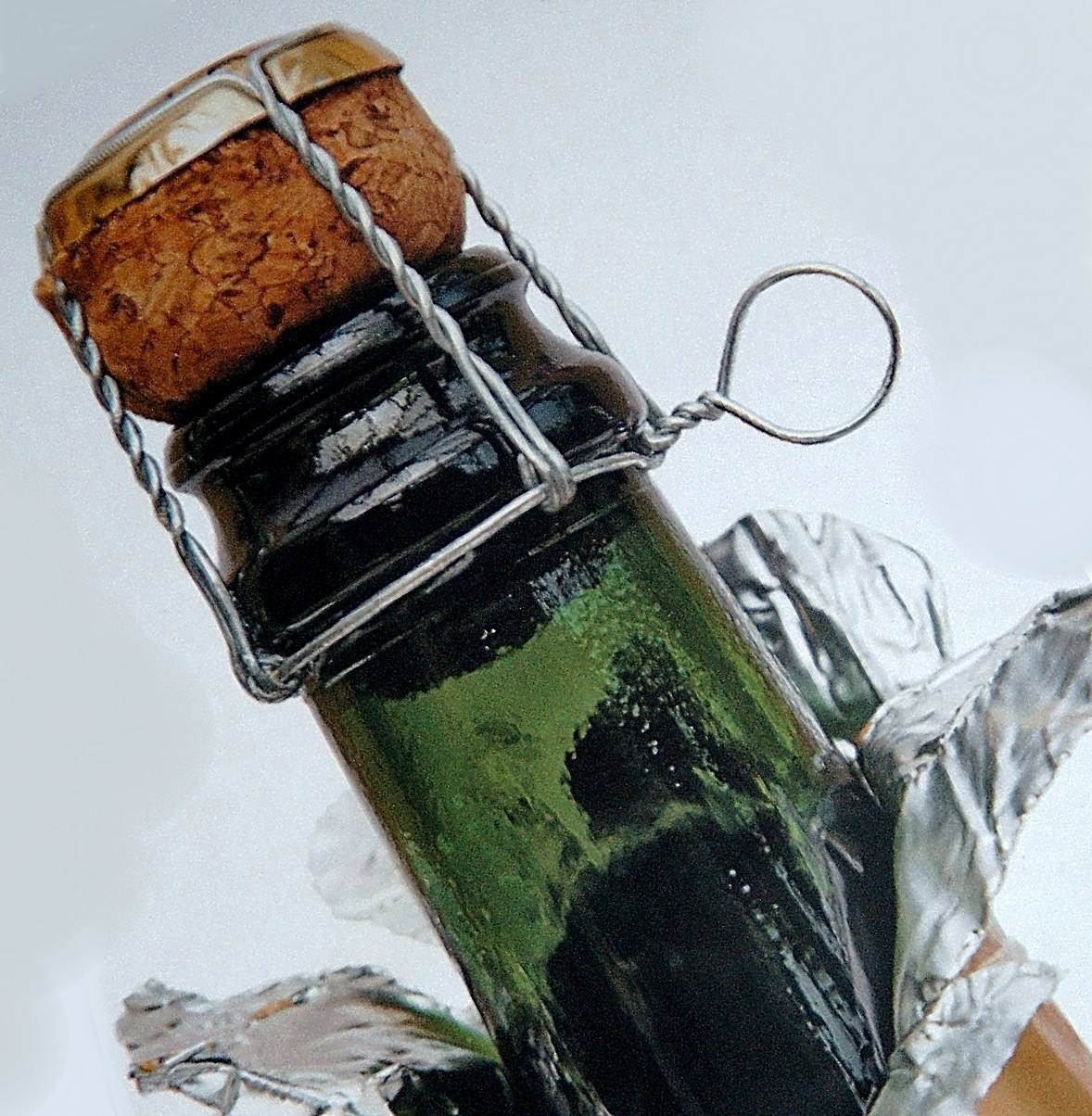 neck of bottle of champagne